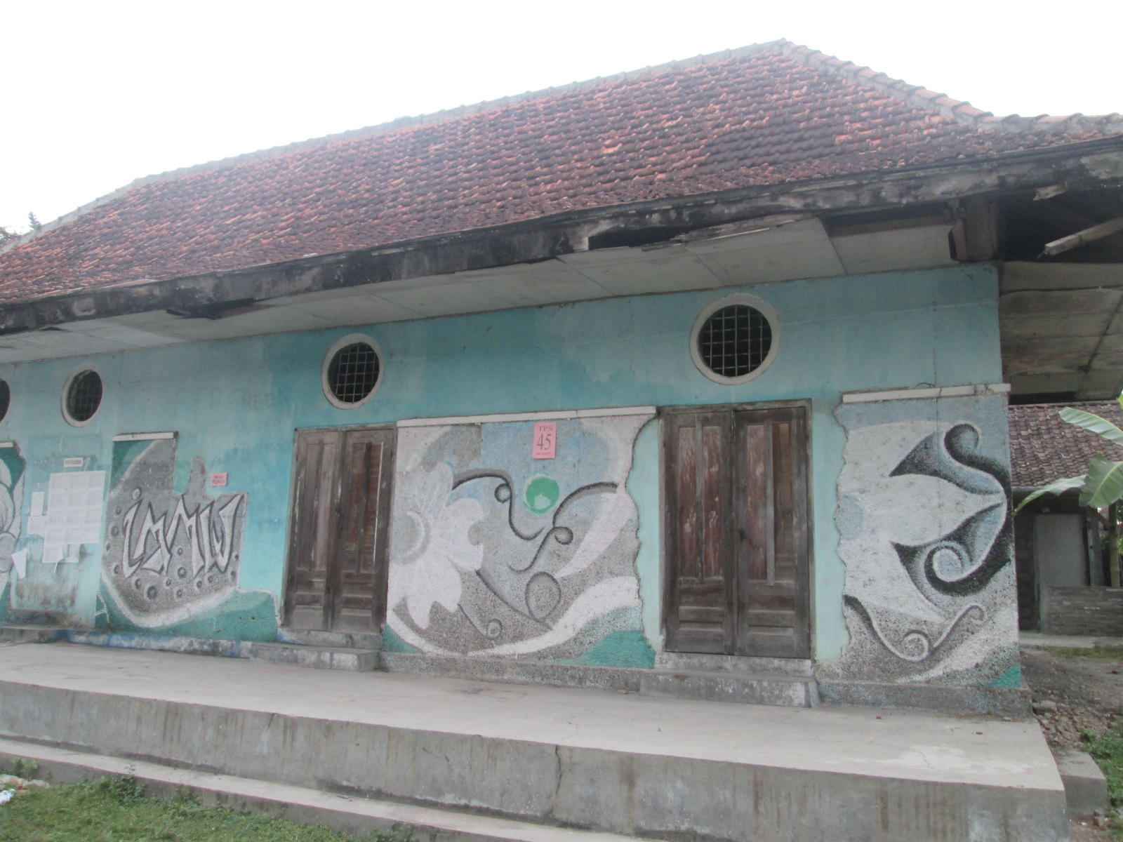 Unused Winongo station that used for karang taruna (kind of youth organization). Actually the front side of the station is a platform, because the rail tracks becomes small road.